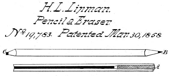 From US Patent 19783 Combination of Lead-Pencil and Eraser by L. Lipman, March 1858.